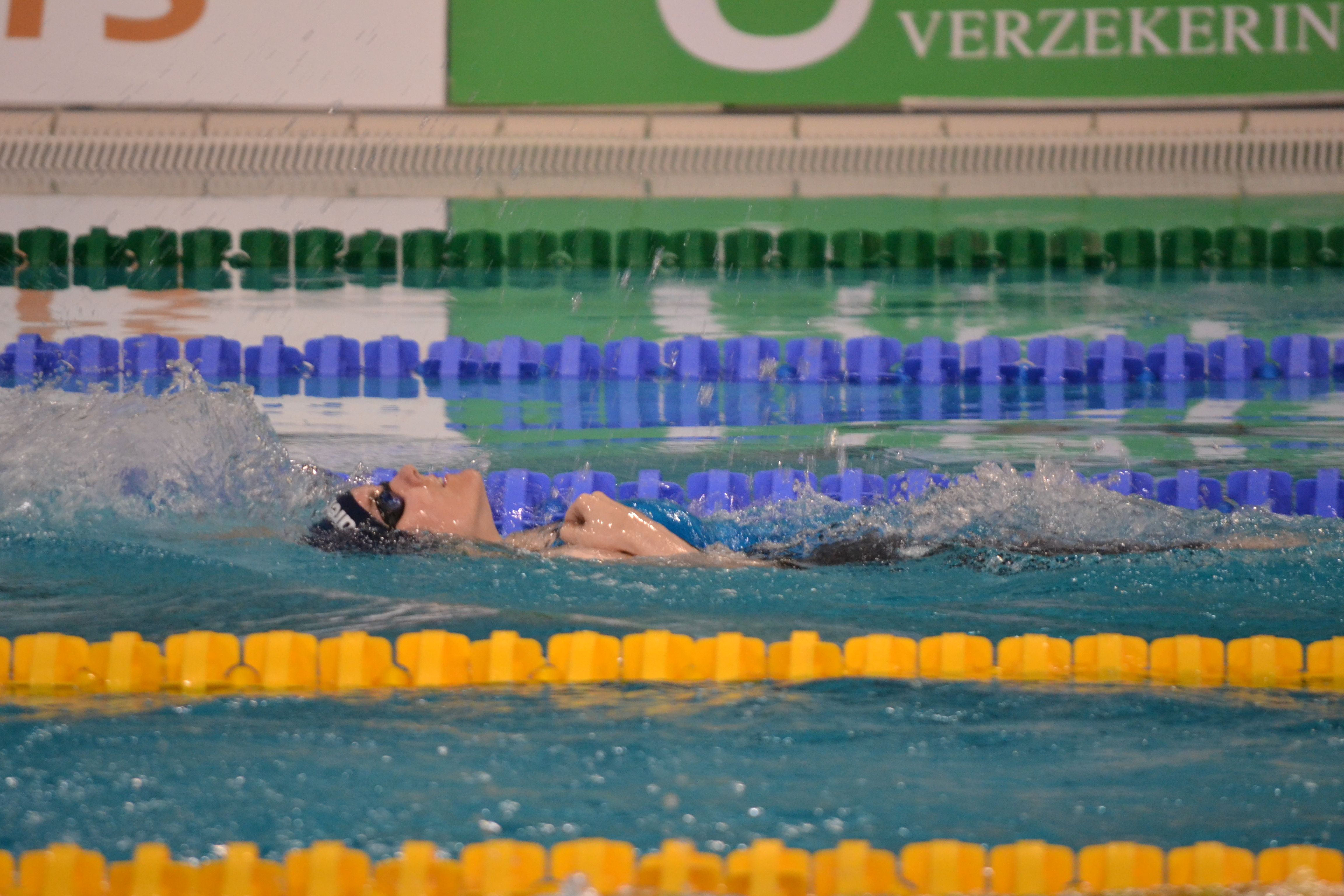 Please refer to: "Photo NSF". From EM in Eindhoven 2014 IPC Swimming European Championships.